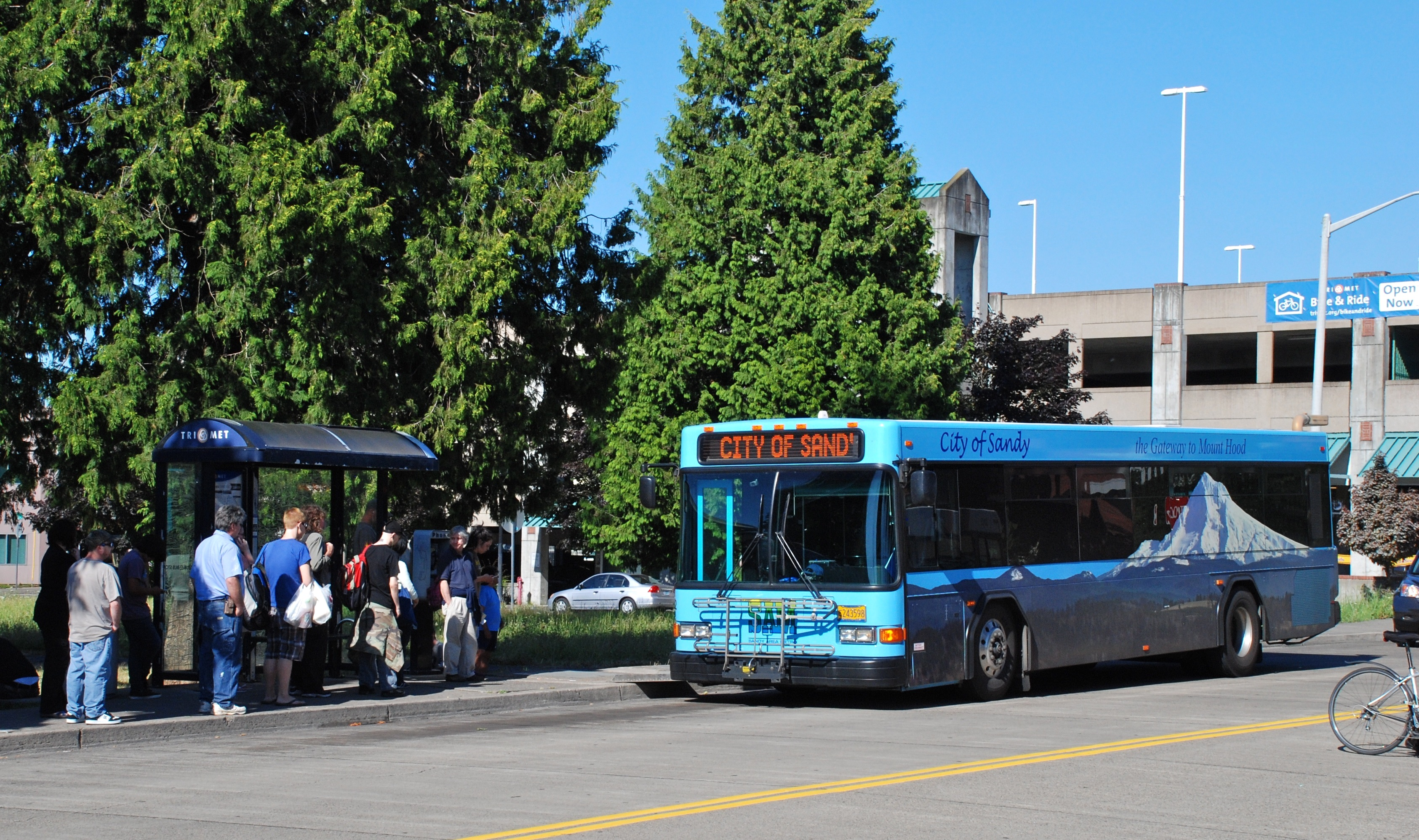 A bus of the Sandy Area Metro (SAM) transit system (owned by the City of Sandy, Oregon) at a bus stop on the north side of NE 8th Street just west of Kelly Avenue, at TriMet's Gresham Central Transit Center (in Gresham, Oregon). It is about to depart for Sandy. The bus, numbered 12 in SAM's fleet, is a 35-foot-long Gillig low-floor bus.